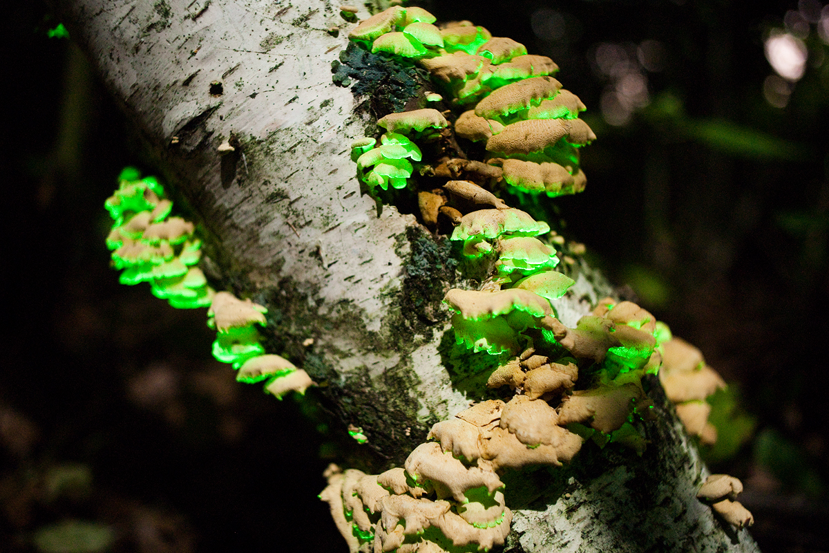 The saprobe Panellus Stipticus displaying bioluminescence.